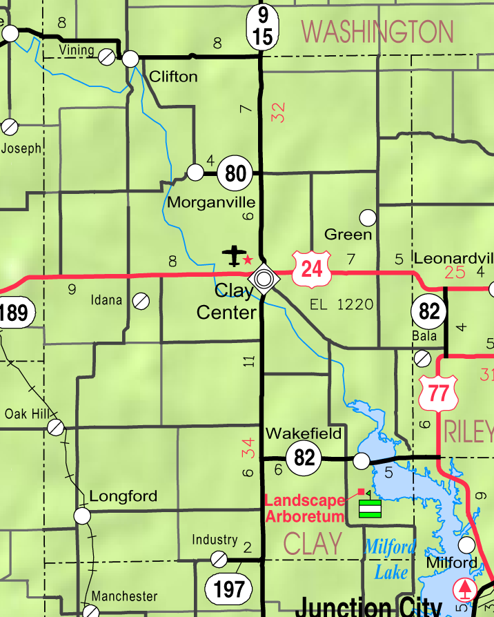 This map of Clay County, Kansas, USA, is copied at a resolution of 300 pixels/inch from the original PDF file.